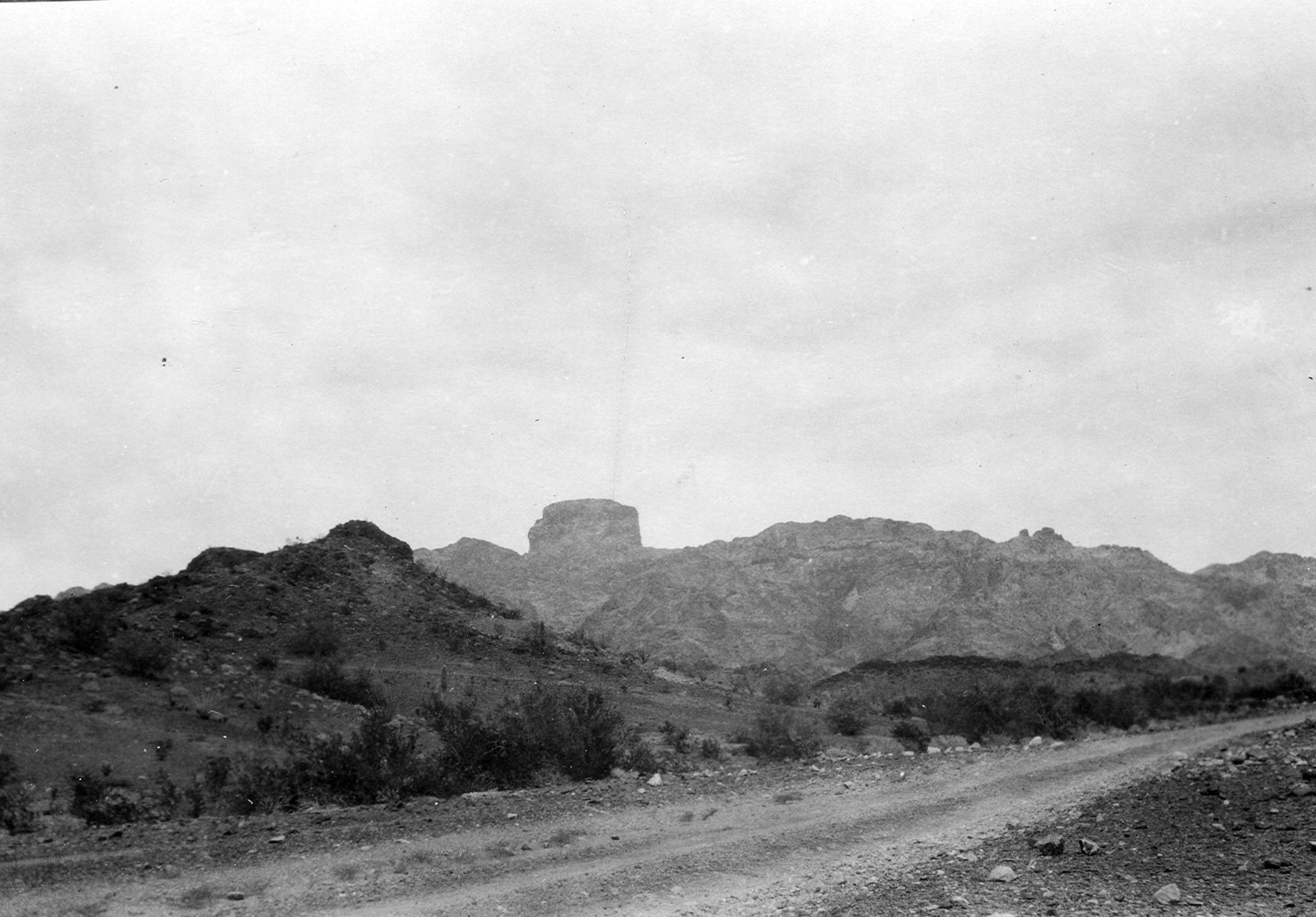 Castle Dome Mountains viewed from front of house on Dr. A.G. Hull property at Castle Dome, Arizona, October 11, 1926.